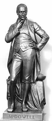 Bronze statue of Ephraim McDowell located in the United States Capital Complex. Part of the The National Statuary Hall Collection, the statue was given by the state of Kentucky to honor McDowell's achievements in the area of medicine.